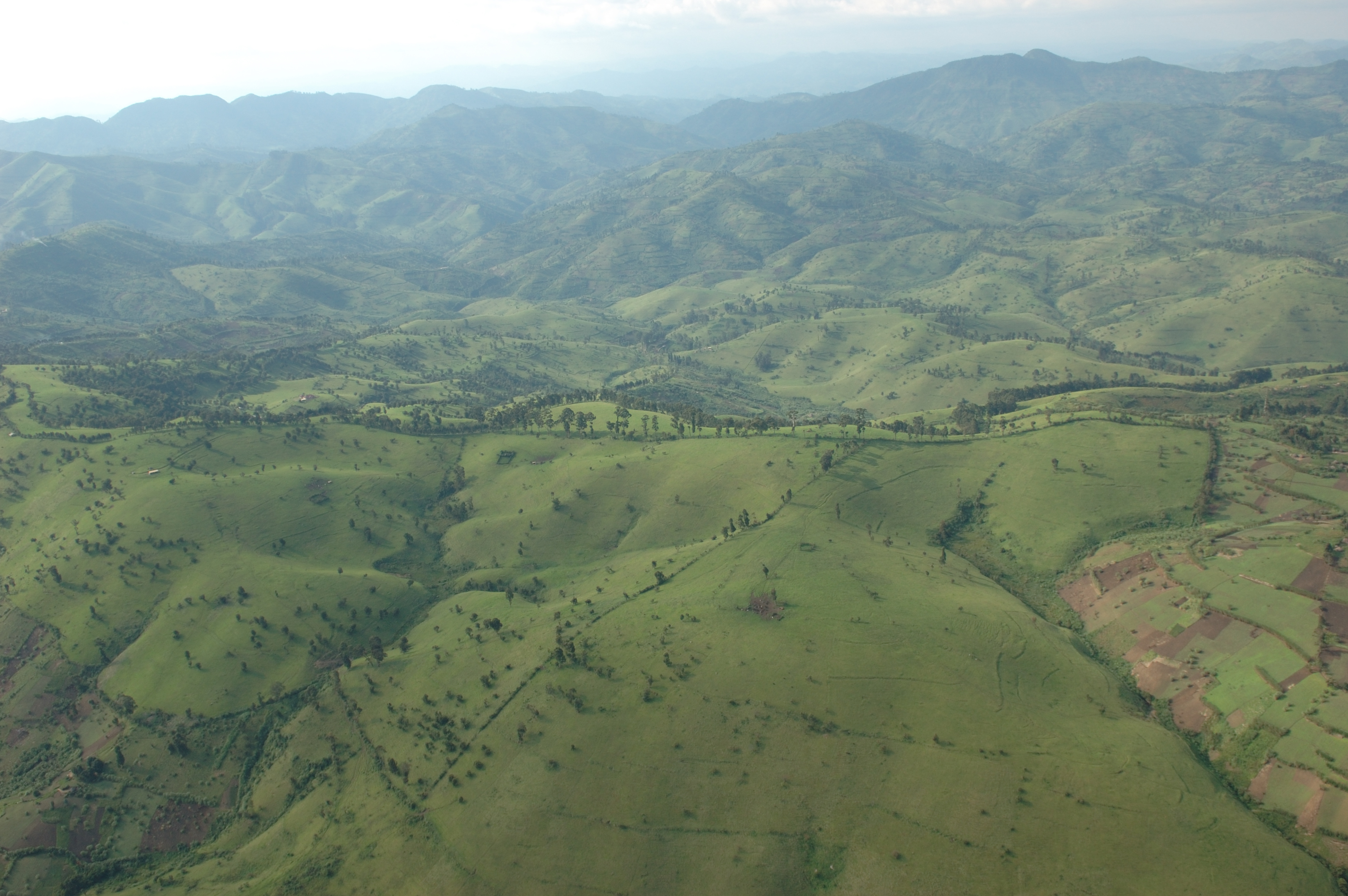 Flying back from jungle covered Walikale the contrast with Masisi was sharp. The late afternoon sun highlighted the lines of old fields in what are now pastures for cattle. The competition for land between herders and farmers is one of the factors feeding the instability in North Kivu.